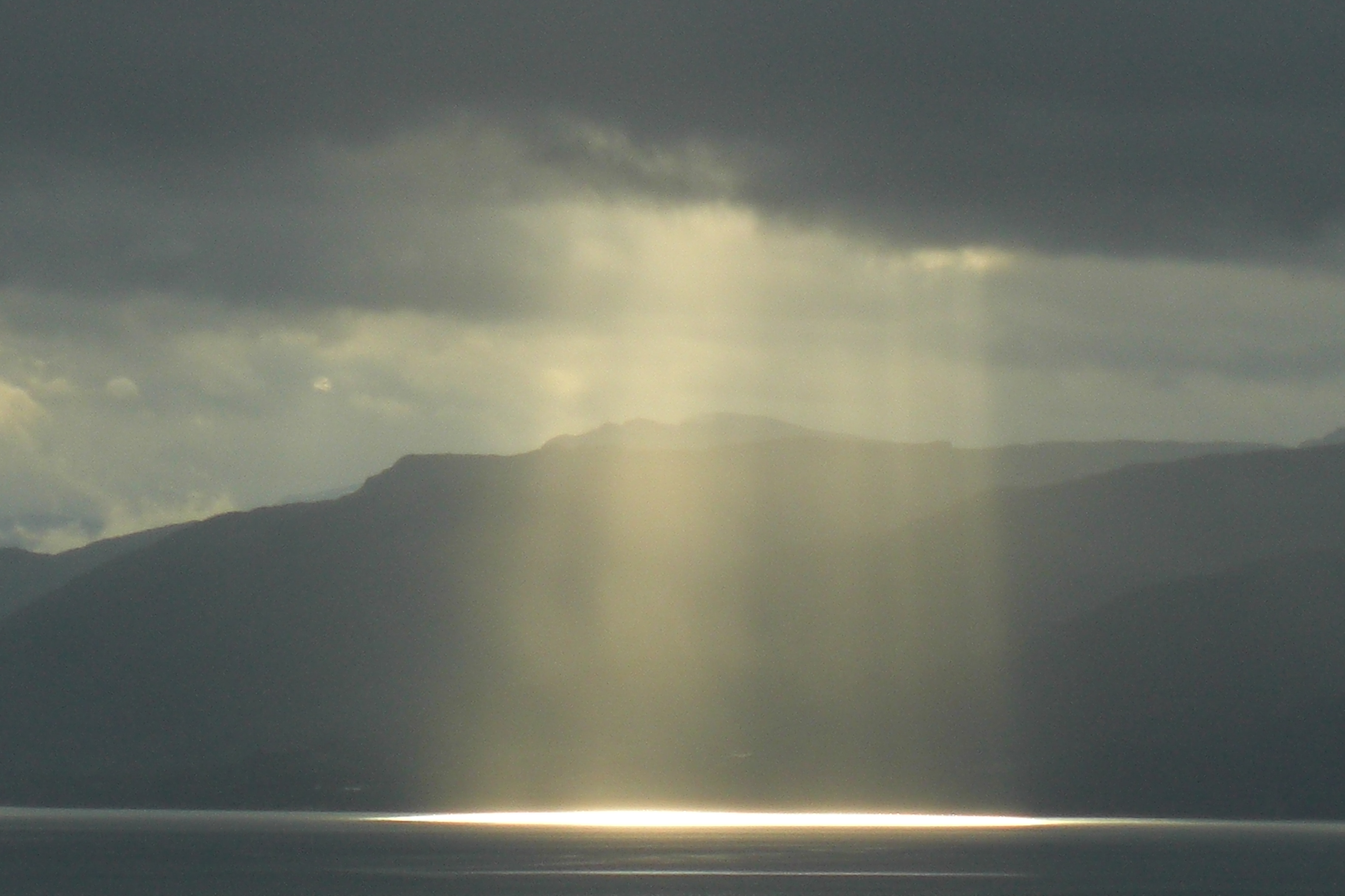 Crepuscular rays in Bjoafjorden, Norway, facing East-Northeast from Utbjoa.